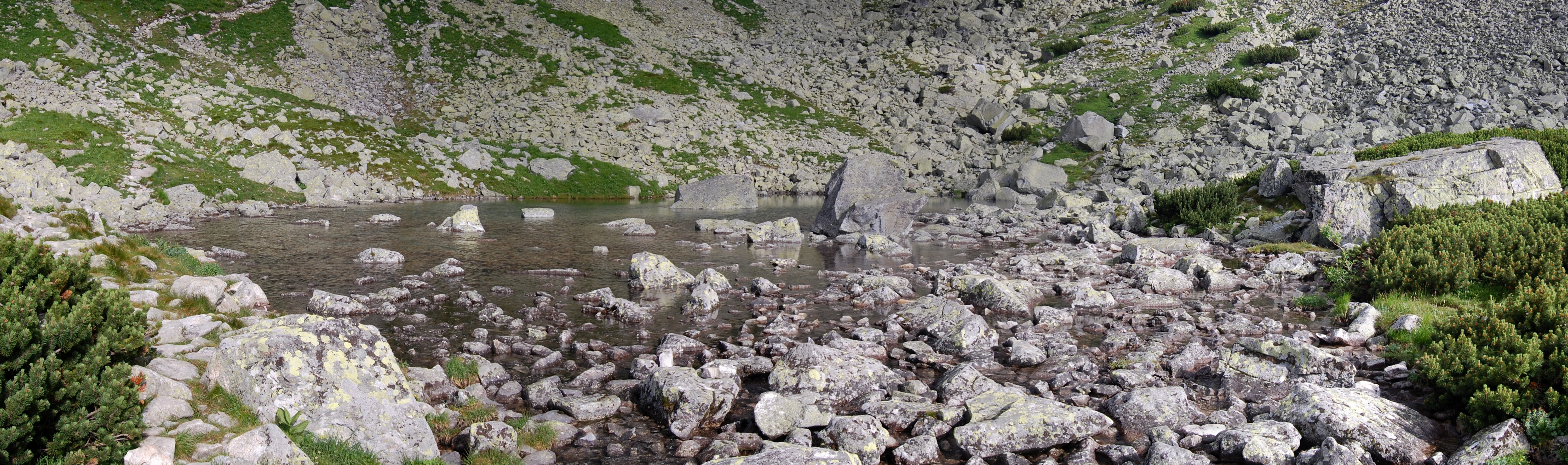 Červené pleso in Červená dolina, High Tatras, Slovakia.